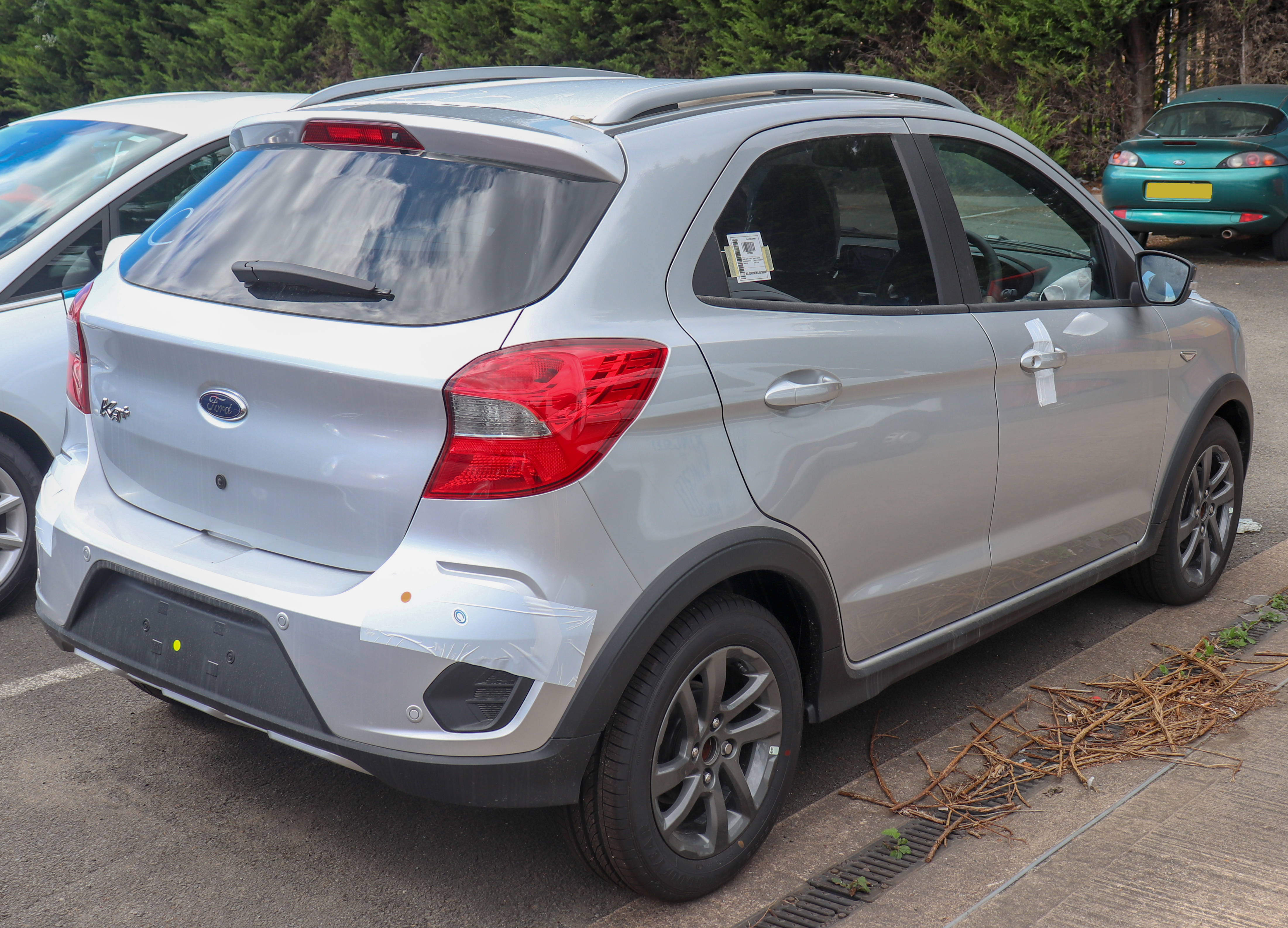 2018 Ford KA+ Active Rear